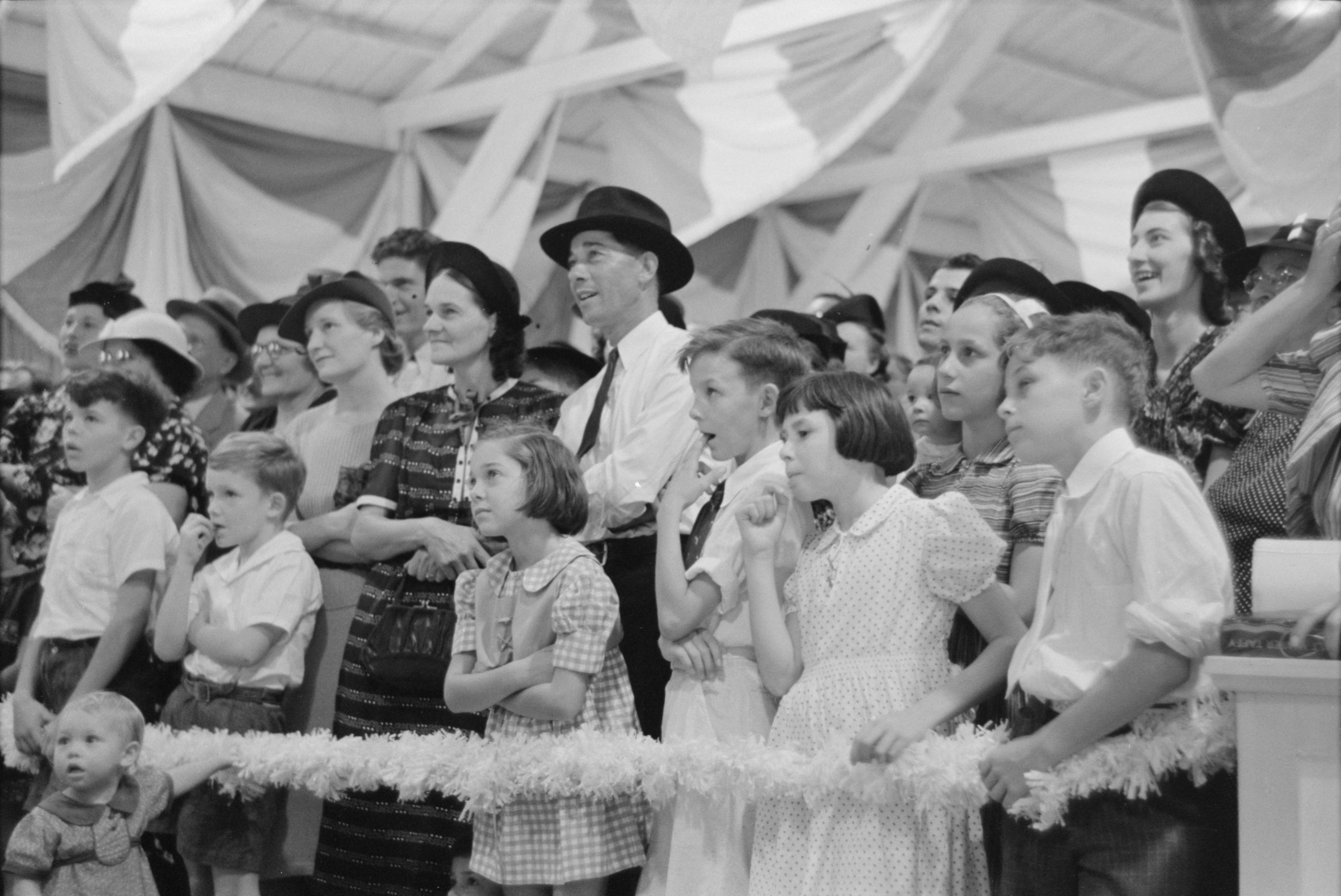 Group of people watching magician, state fair, Donaldsonville, Louisiana, 1938